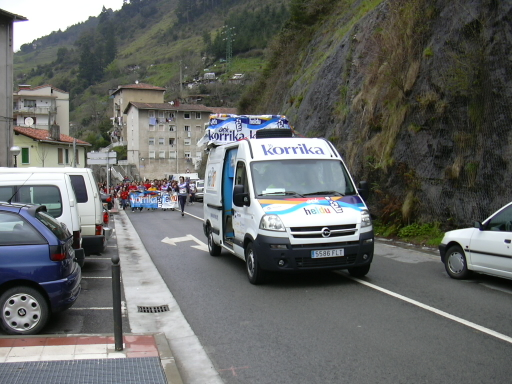 Head of the 15th Korrika 2007 in Soraluze.